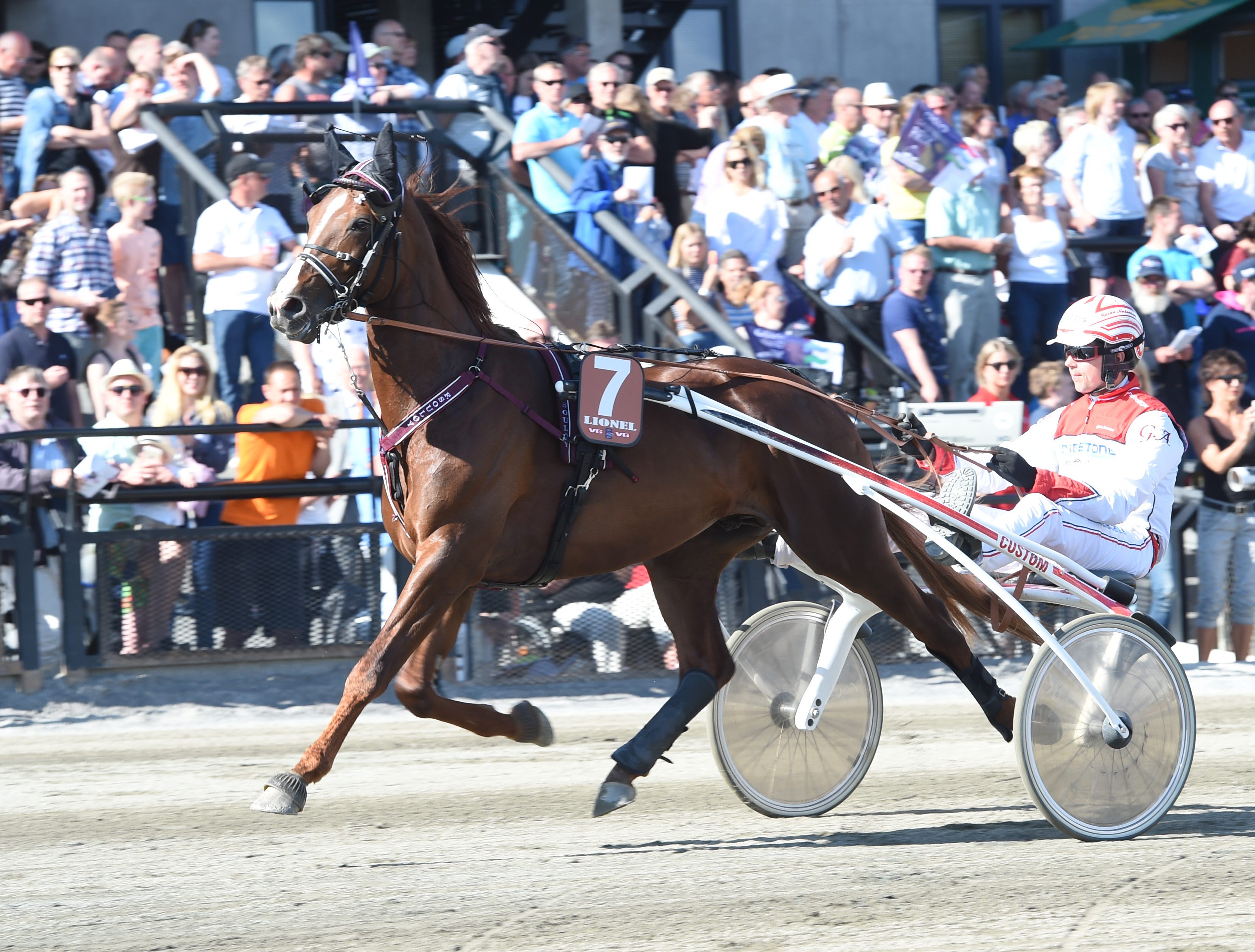 Lionel N.O. at Oslo Grand Prix 2016.